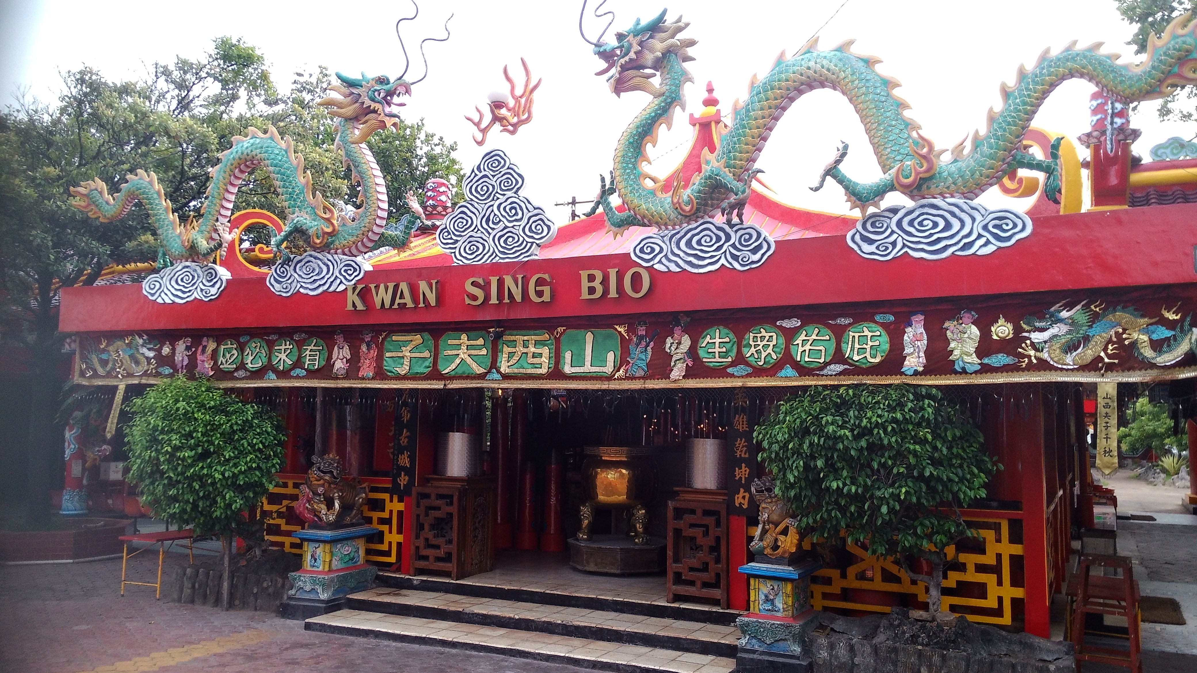 Kwan Sing Bio Temple, Tuban, East Java, Indonesia